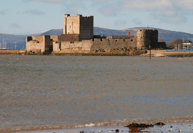 Carrickfergus Castle (2). See 251401. The castle, seen in the early-morning sun, from the shore near the Fishermans Quay 221222.